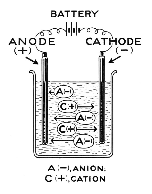 line art drawing of cathode.